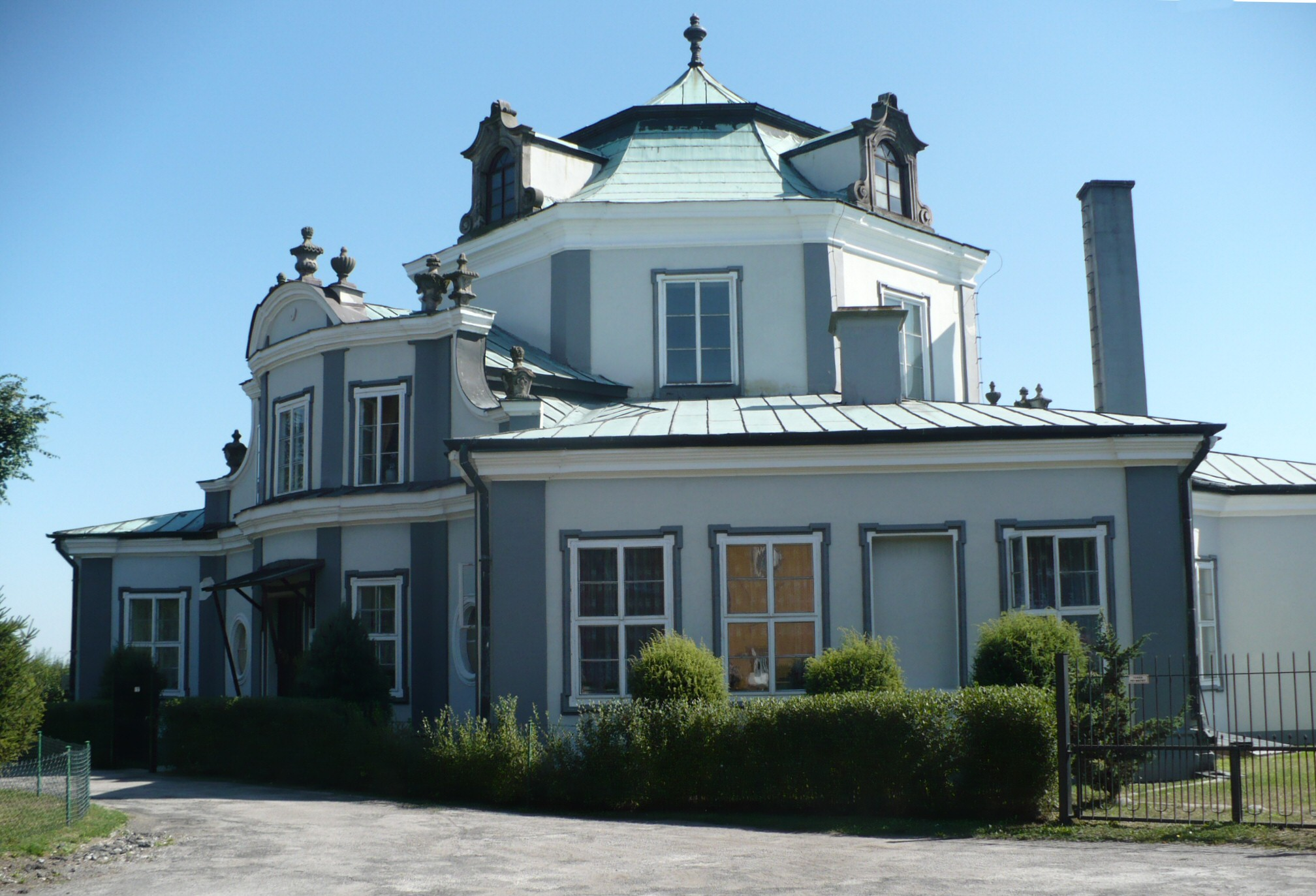 18th century palace in Grabki Duże, Poland; so-called "harem"